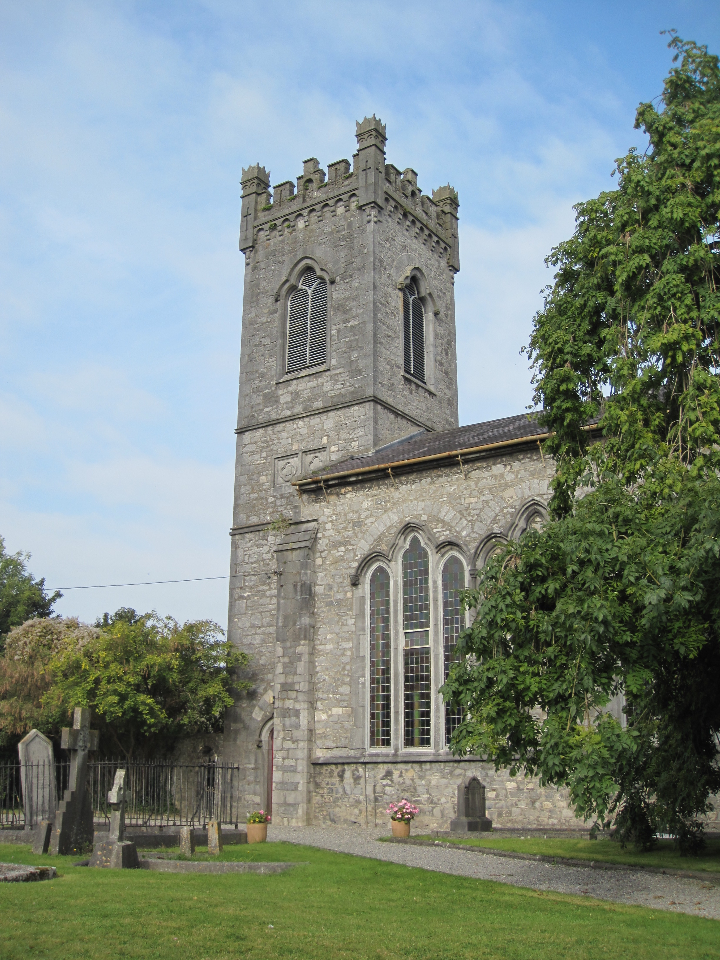 St Johns Abbey Kilkenny City